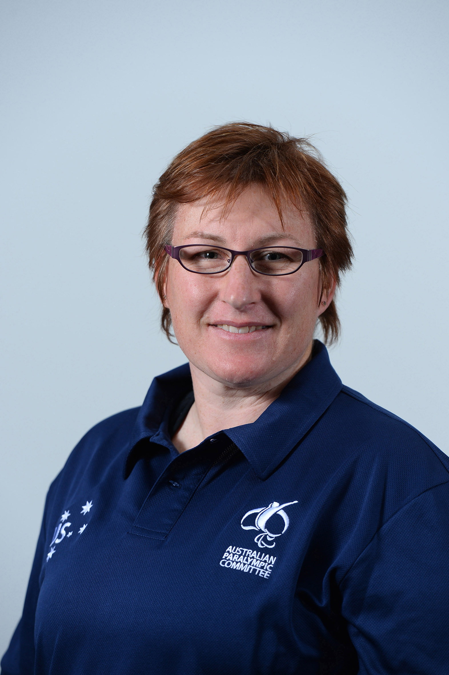 Portrait photograph of Katherine Proudfoot taken at team processing session for shadow members of 2016 Australian Paralympic team